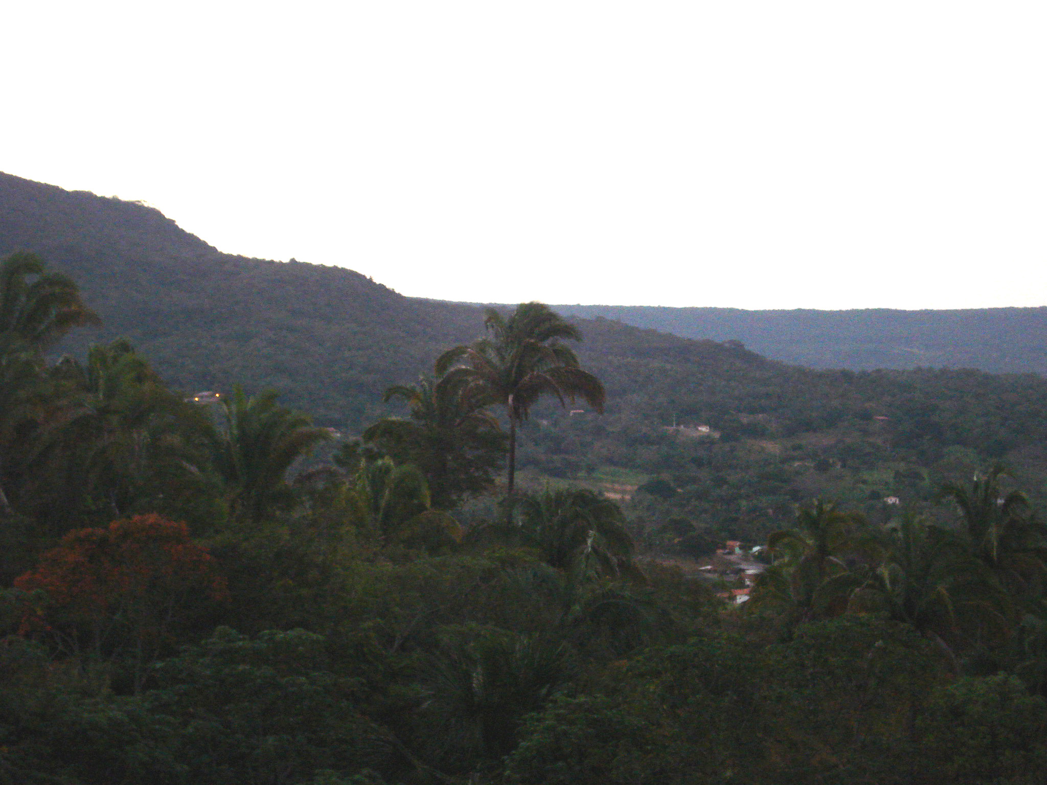 Partial sight of the Cariri Valley from the Clube Serrano, in the Chapada do Araripe (Crato, Ceará - Brazil).